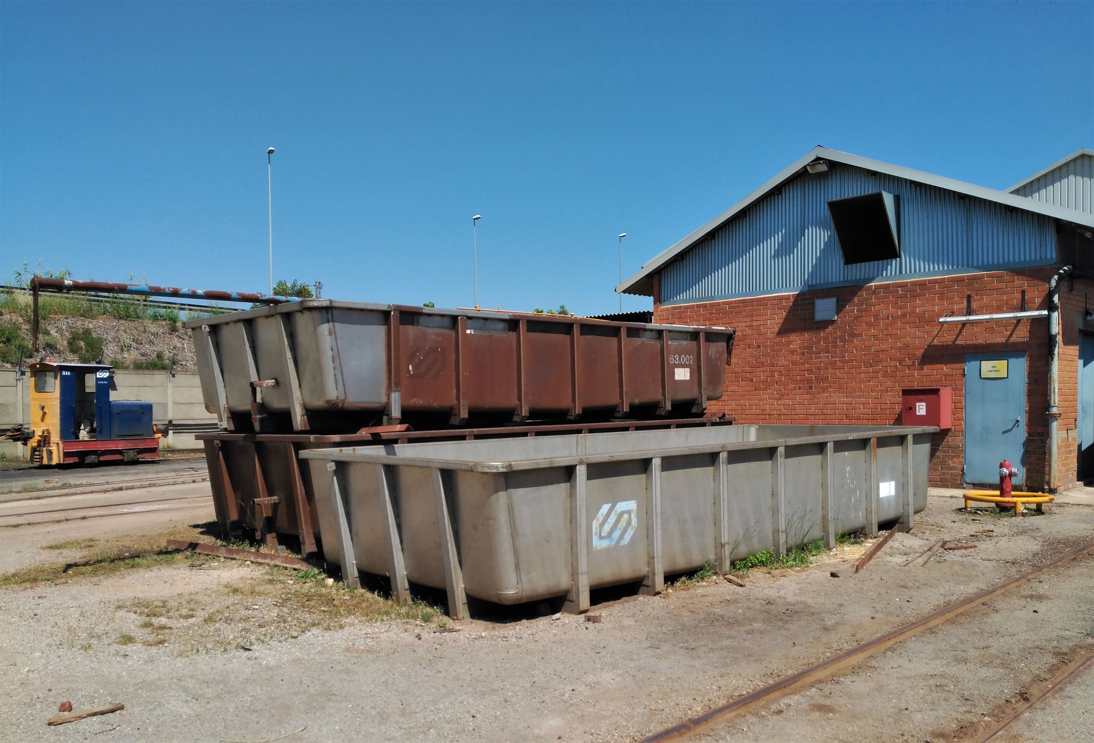 Three reserve bodies of the Class 63.000 wagons of Ferrocarrils de la Generalitat de Catalunya, in the workshop of Martorell Enllaç.